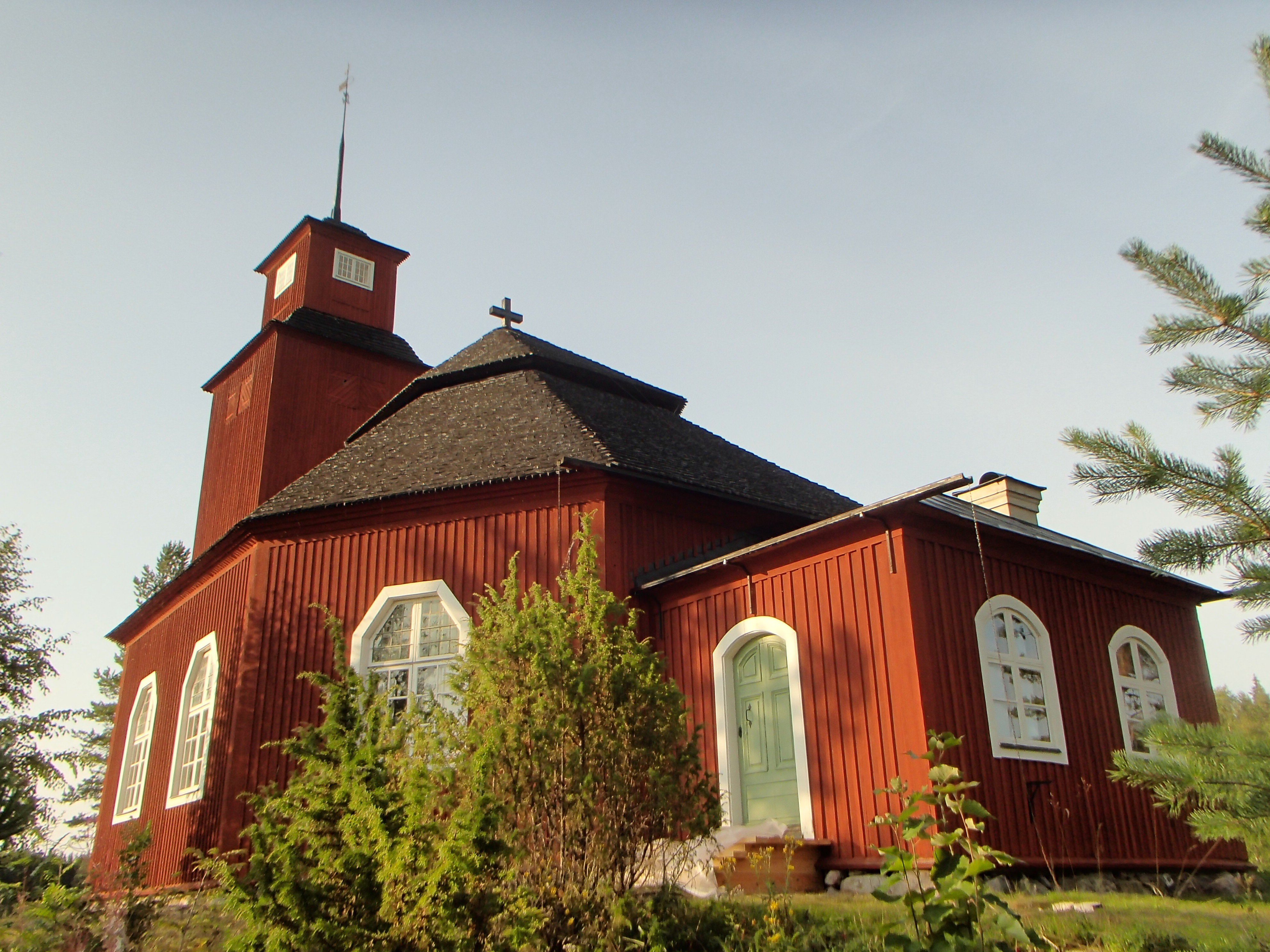 The church building of "Lagfors kyrka" at Ljustorp 203 in Lagfors, Timrå Municipality